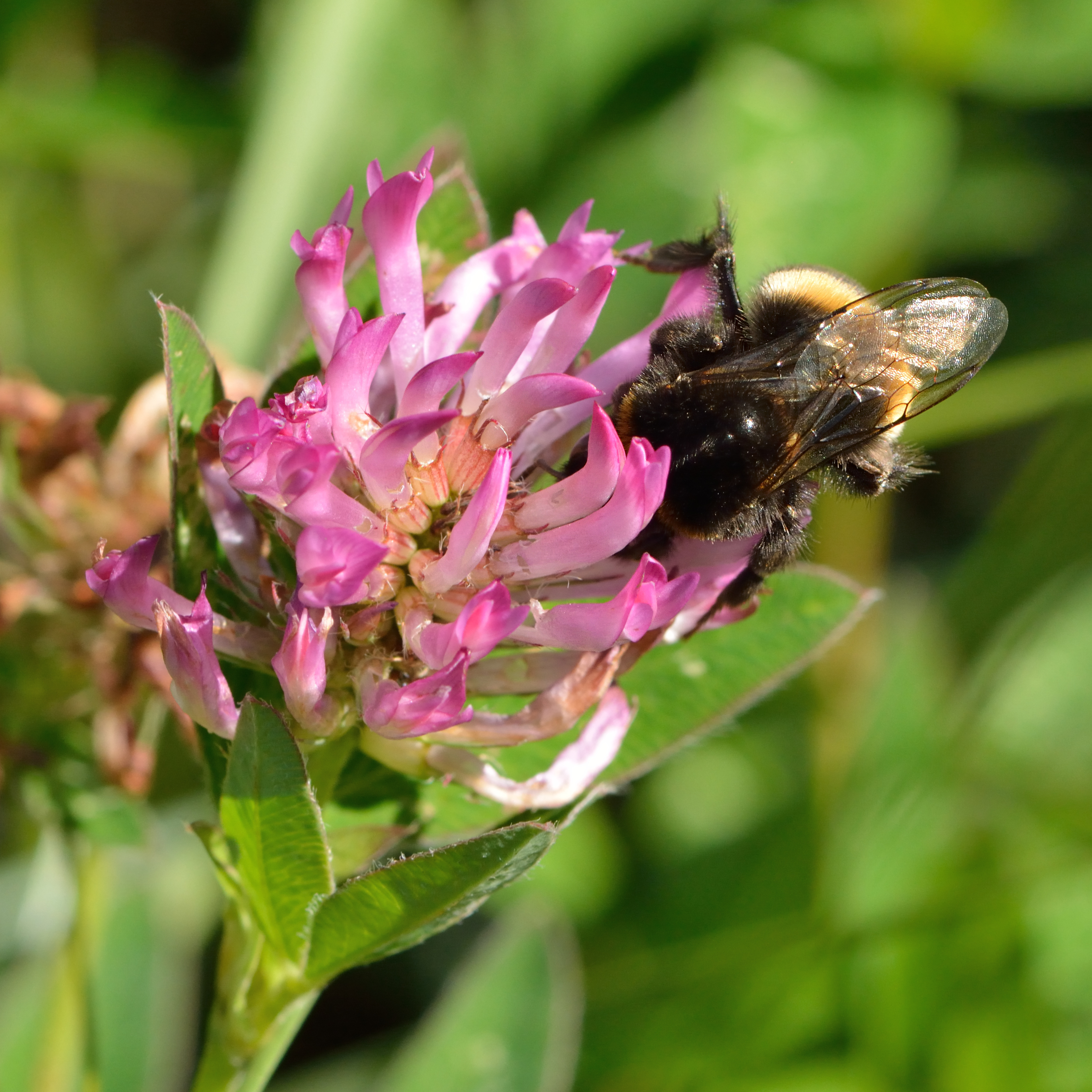 Large earth bumblebee (Bombus terrestris) on the zigzag clover (Trifolium medium). Keila, northwestern Estonia.